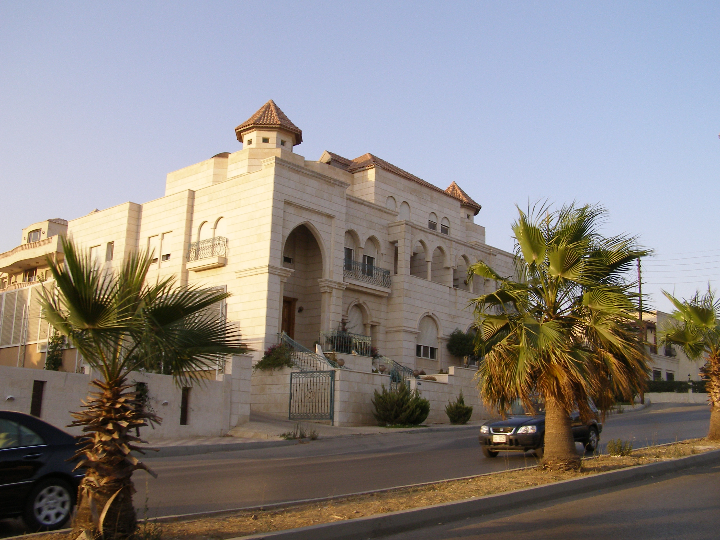 A stone house and street in West Amman - Jordan. Modern Amman.